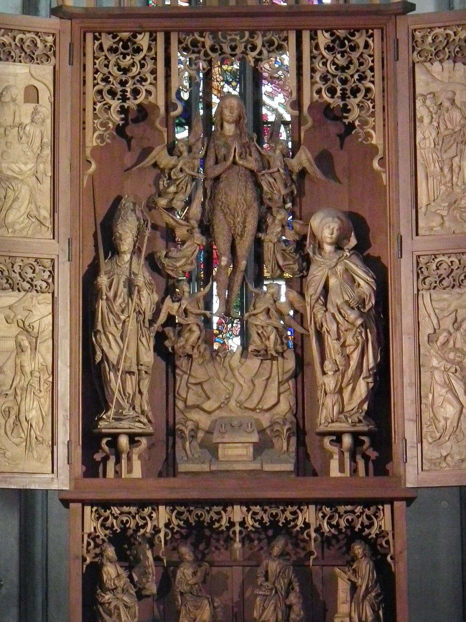 St. Maria Magdalena Münnerstadt Native nameSt. Maria MagdalenaLocationMünnerstadt, Lower Franconia, GermanyCoordinates50° 14′ 56.04″ N, 10° 11′ 44.88″ E Authority control : Q2801564 VIAF: 142822833 LCCN: nr2002023876 WorldCat institution QS:P195,Q2801564